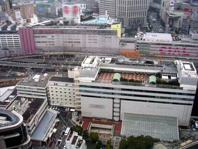 The bird view of Yokohama Station. Before uploading, the author blurred all logos in the photo